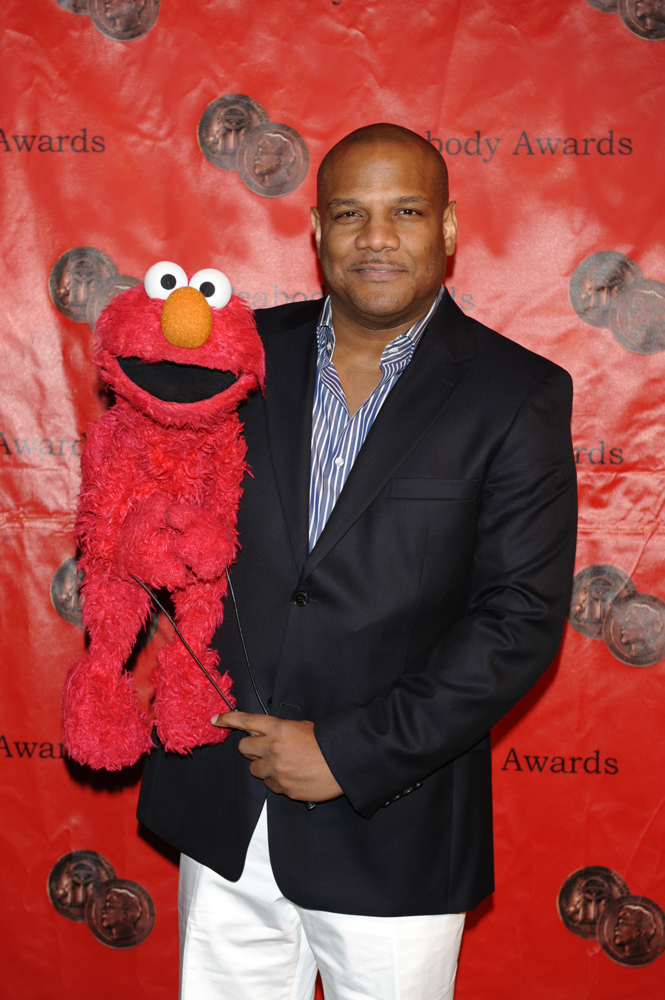 Elmo and Kevin Clash 69th Annual Peabody Awards Luncheon Waldorf=Astoria Hotel New York, NY USA May 17, 2010